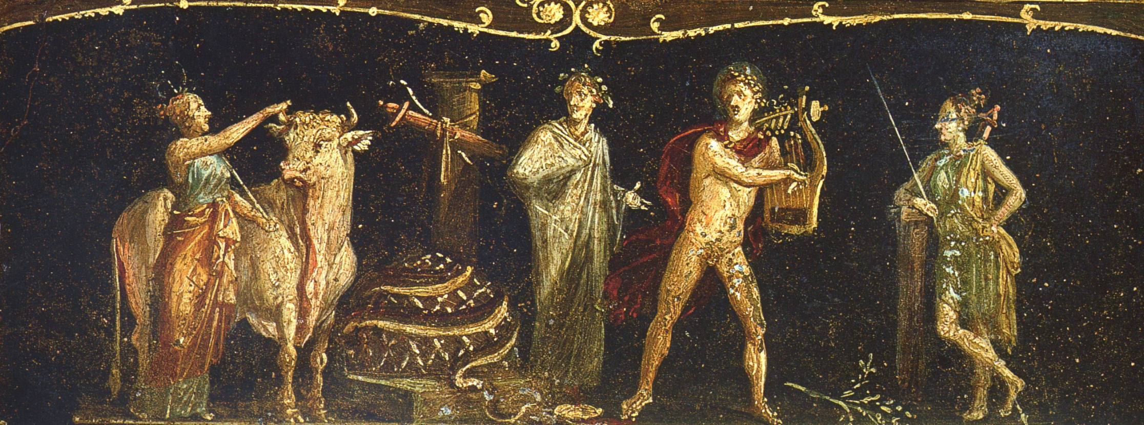 Detail with motives from Iphigenia in Tauris by Euripides from the decoration in the triclinium of the Casa dei Vettii (VI 15,1) in Pompeii.